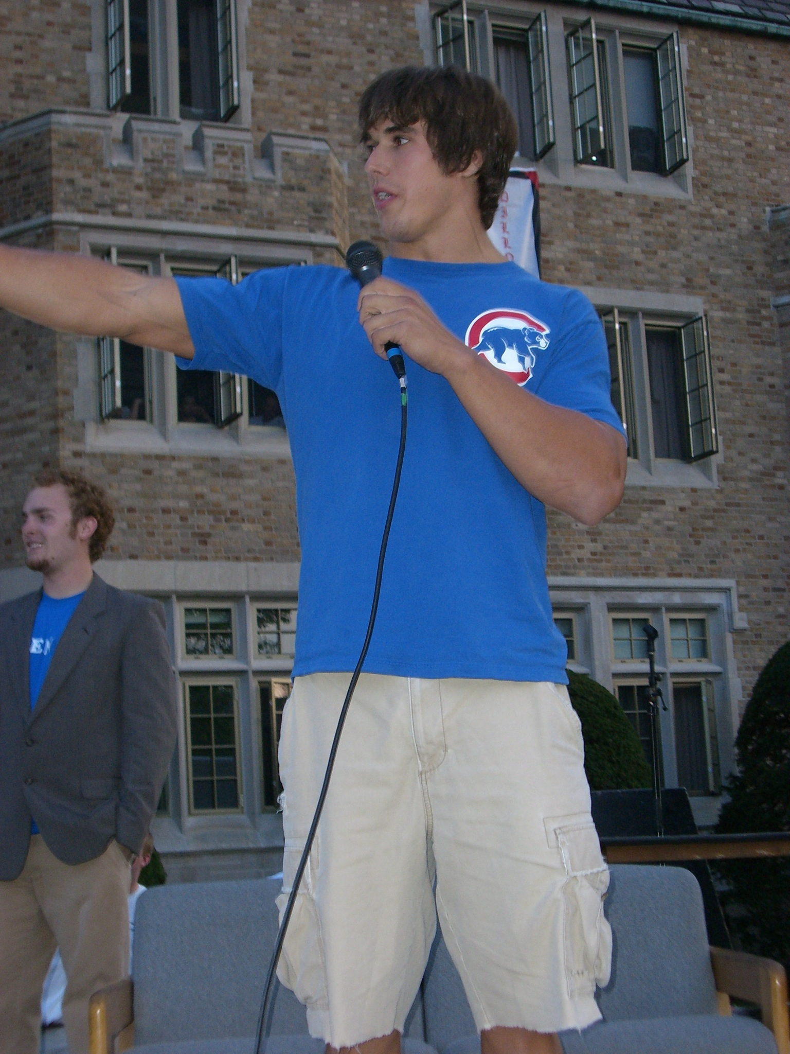 College football quarterback Brady Quinn at a pep rally at the University of Notre Dame.